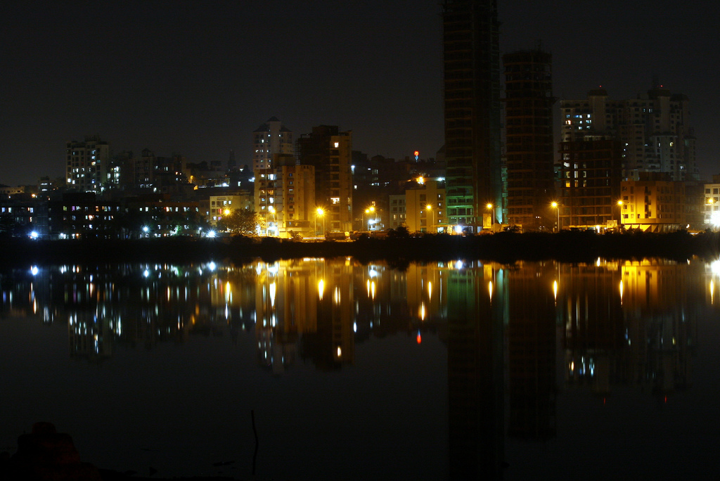 Buildings in Nerul, Navi Mumbai at night